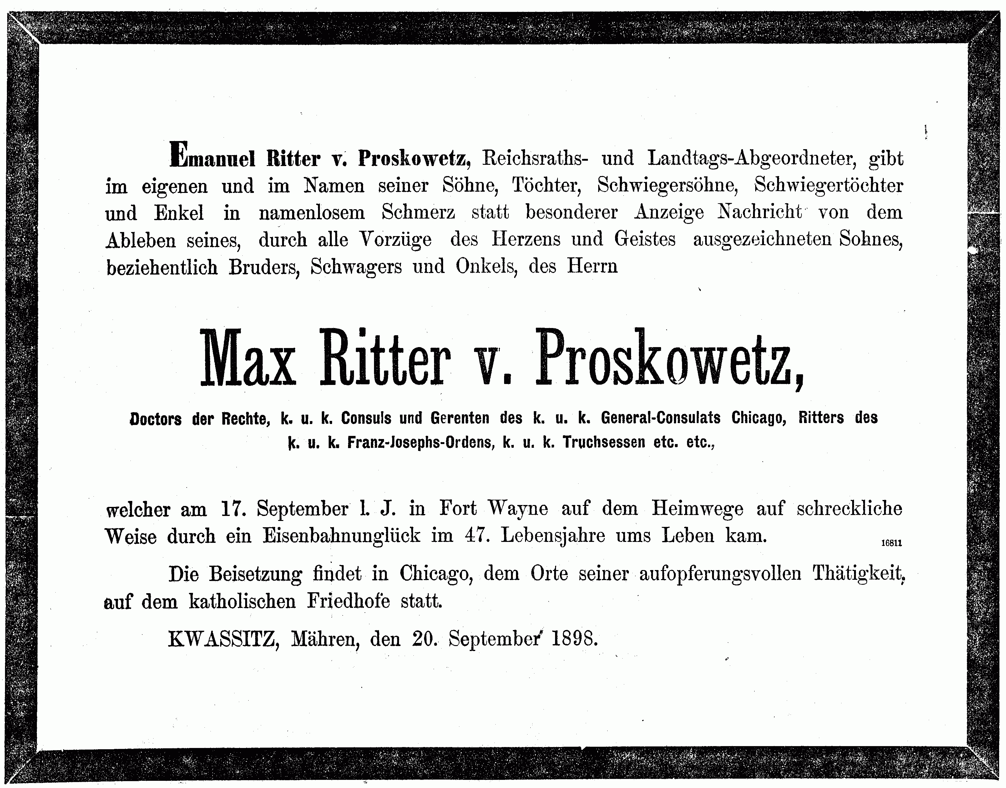 Obituary Max von Proskowetz (1851–1898), Austrian agronomist and diplomat